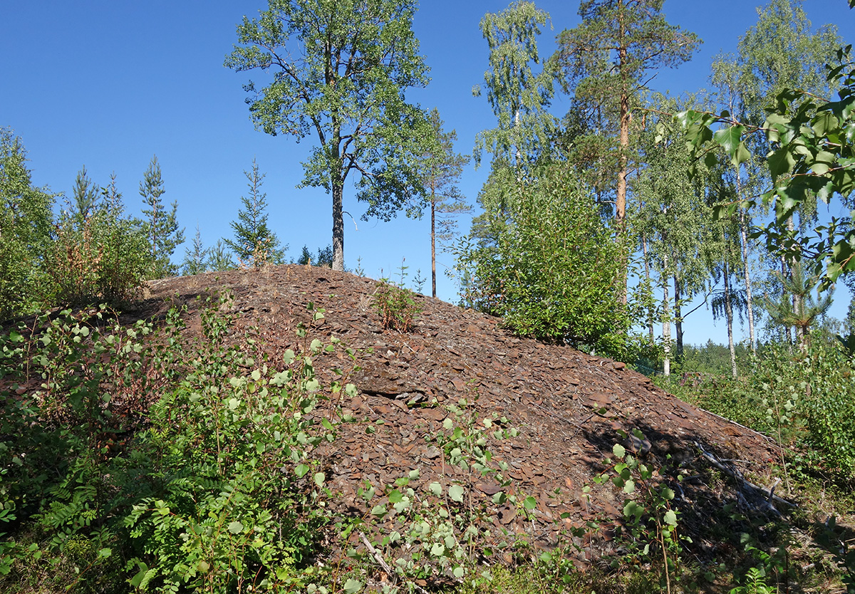 Remains from the iron ore extraction on Mount Gruvberget, Bygdsiljum, Västerbotten, Sweden.